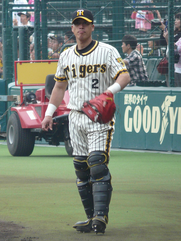 Kenji Johjima, catcher of the Hanshin Tigers, at Hanshin Koshien Stadium.